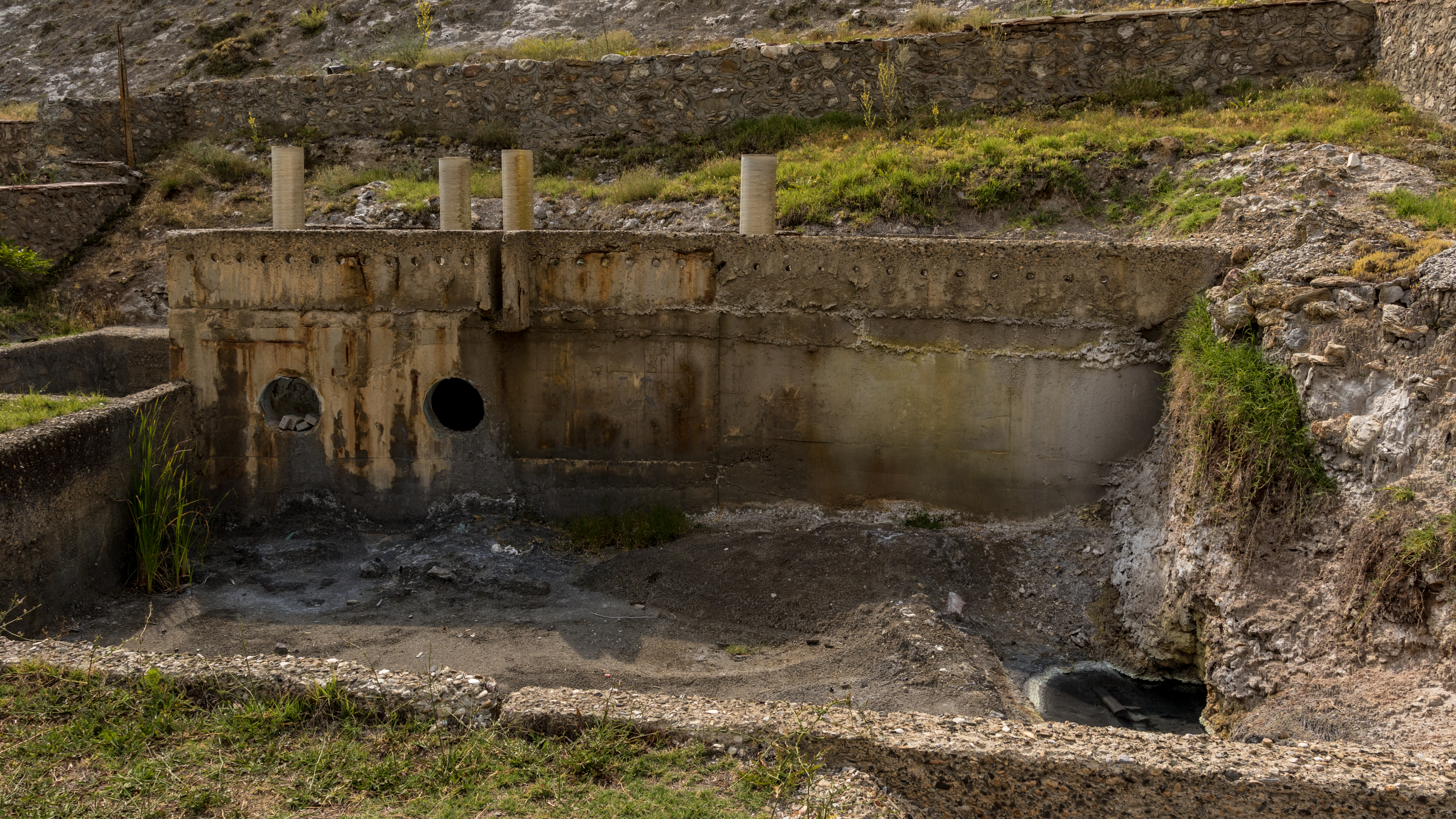 View of the Debar Spa